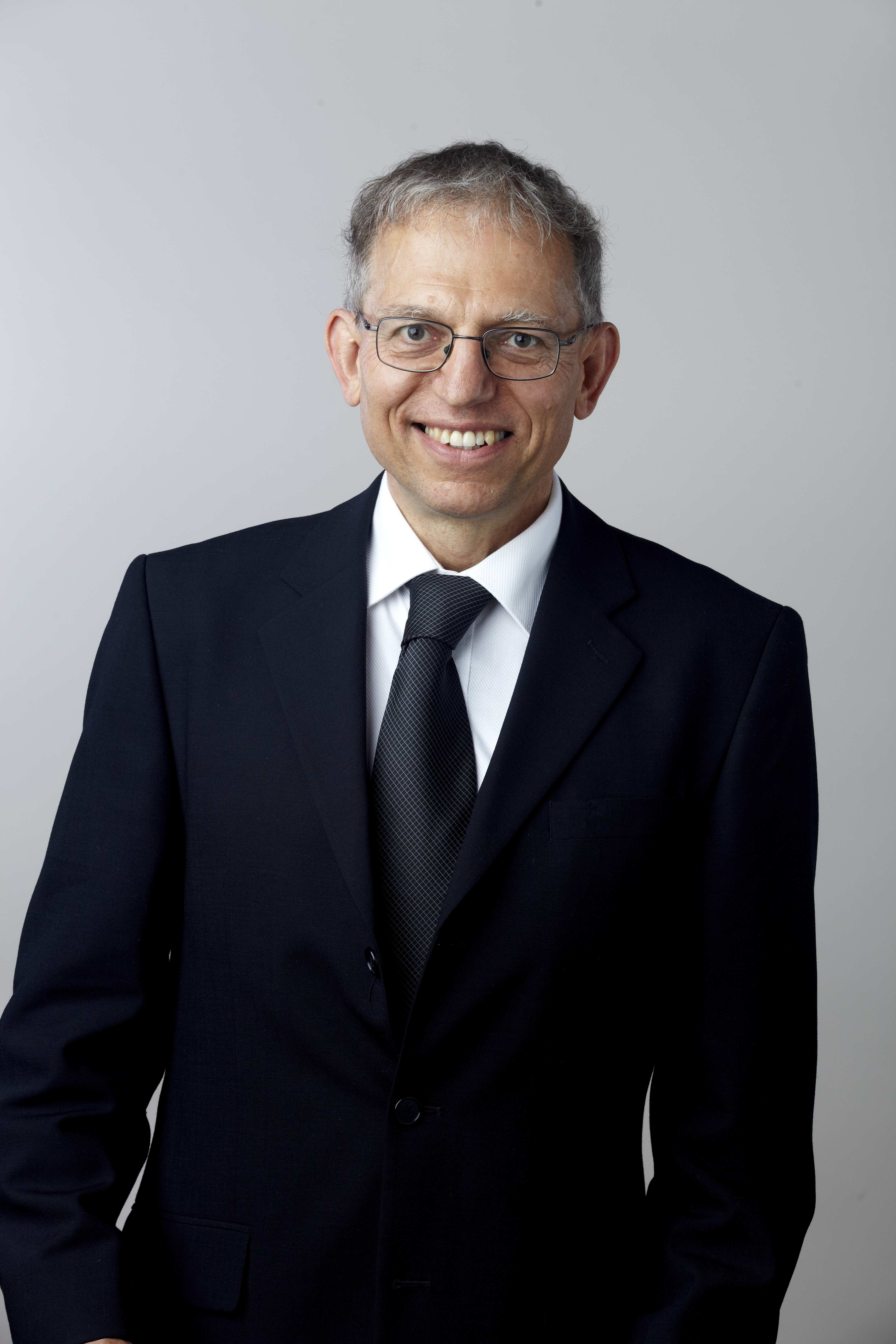 Dr Alan Soper FRS, Royal Society Fellow elected 2014 Attribution: The Royal Society